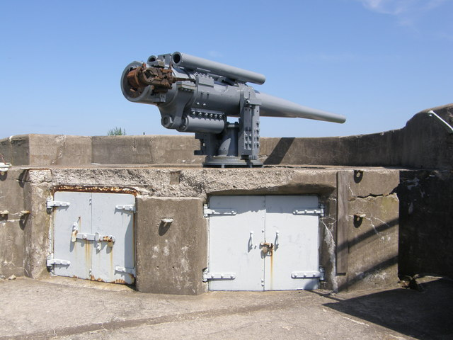 Gun Emplacement - The Battery Tynemouth